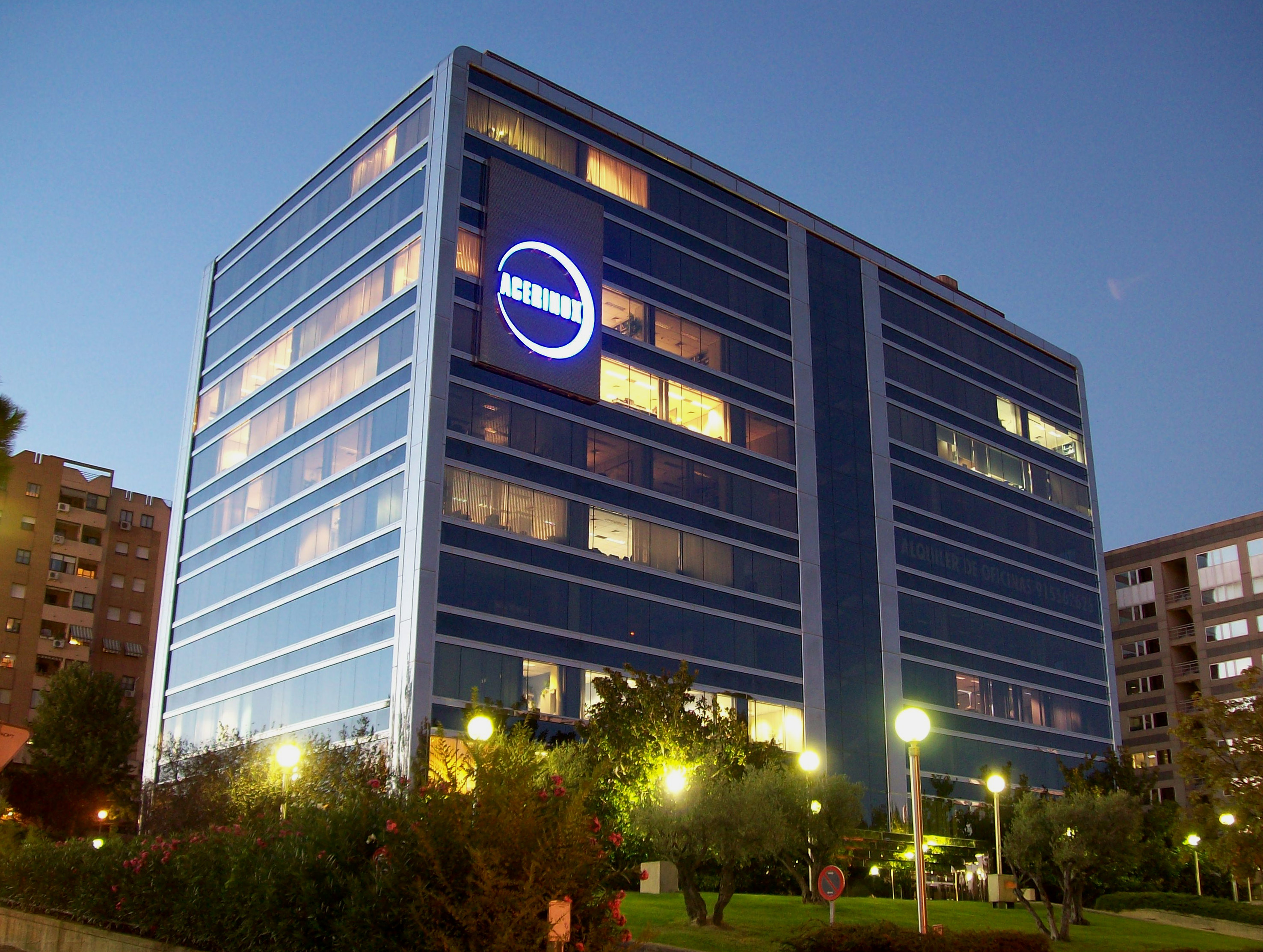 View of Acerinox headquarters at 100 Calle de Santiago de Compostela (street) in Fuencarral-El Pardo district in Madrid (Spain).